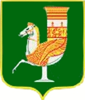 Coat of arms of Krasnogvardeiskoye Raion (Adygea), Russia